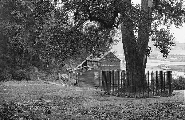 Tulip Tree under which the sale of Manhattan by Native Americans to Peter Minuit took place in 1626